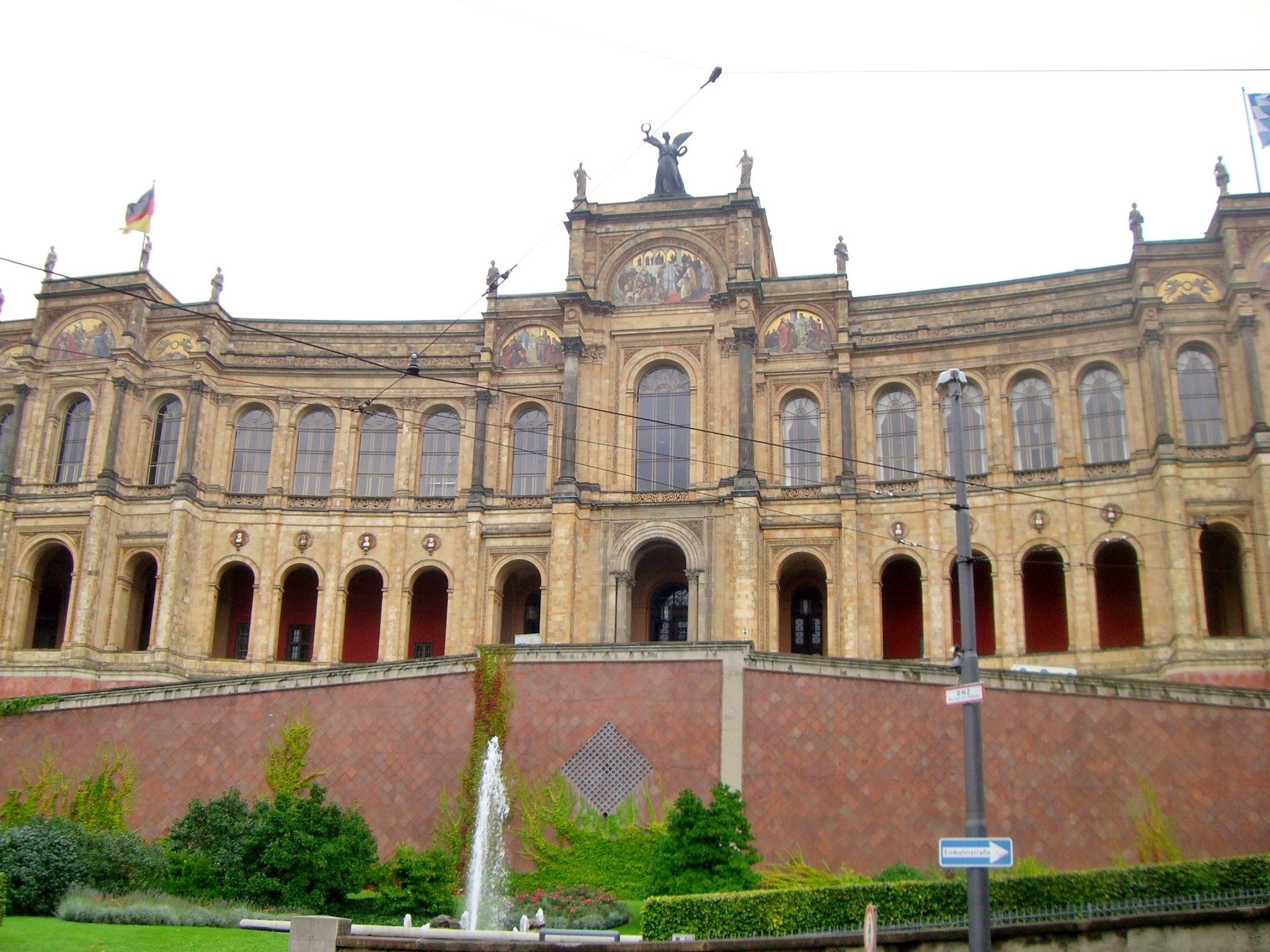 Bavarian Parliament, Munich